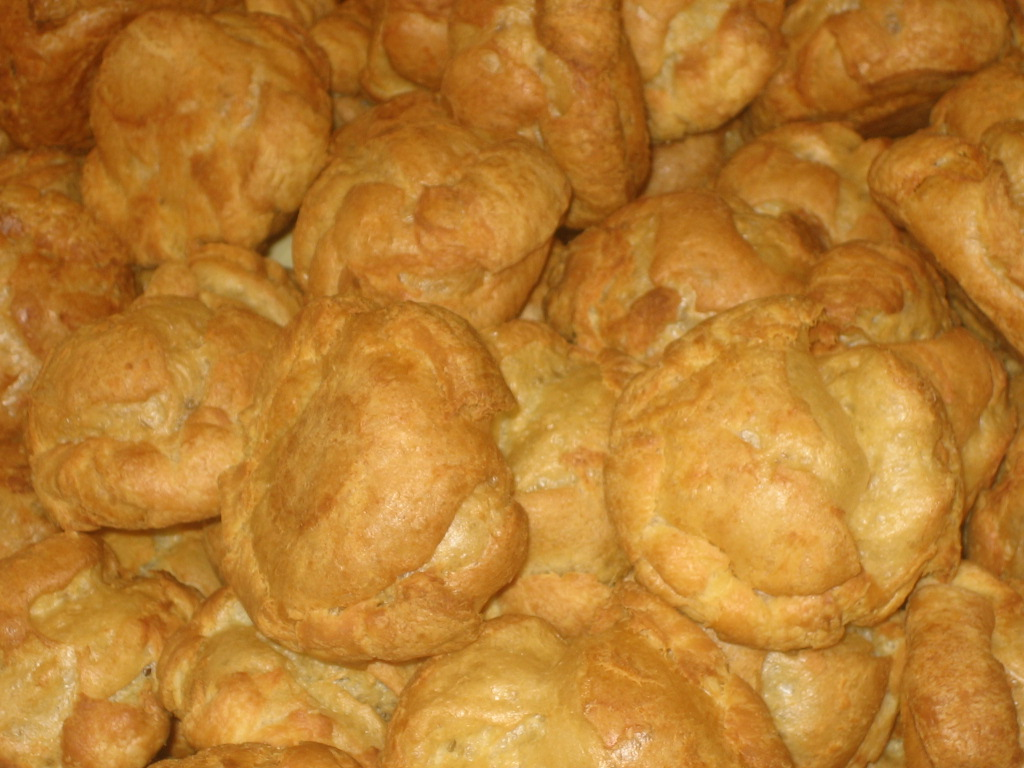 Profiterole